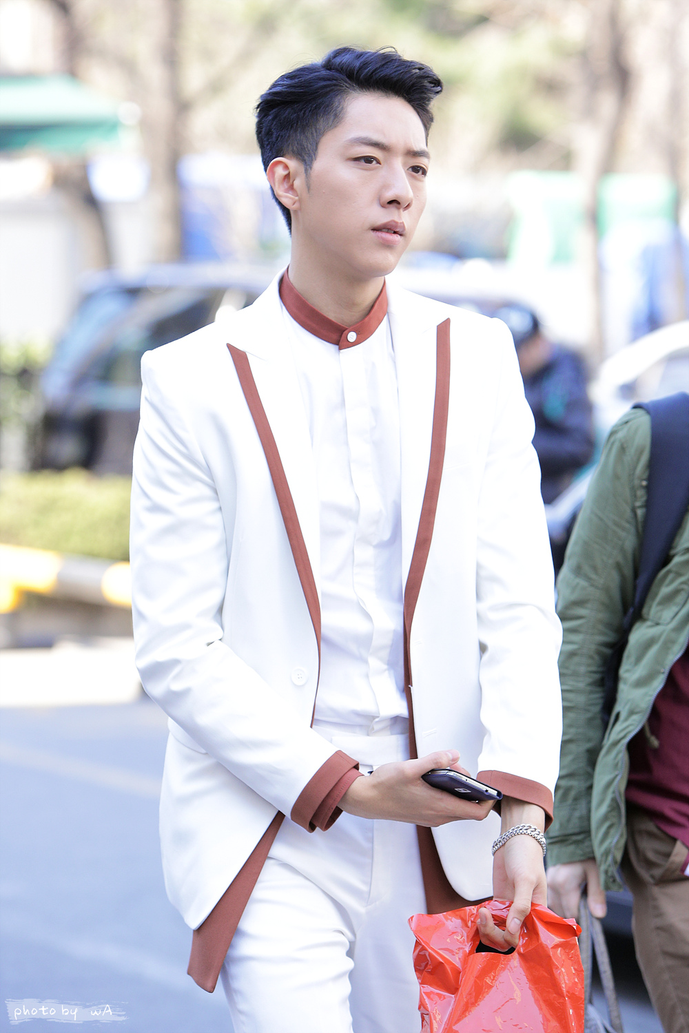 CNBLUE's Lee Jung-shin returning to KBS Music Bank recording on March 21, 2014.